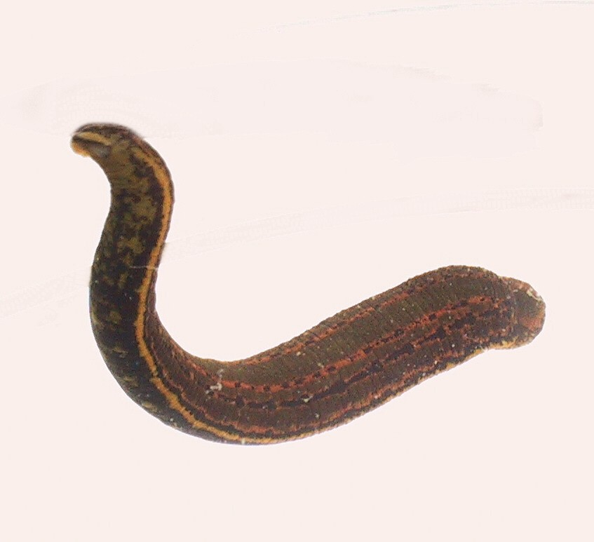 European medical leech (Hirudo medicinalis L., 1758)